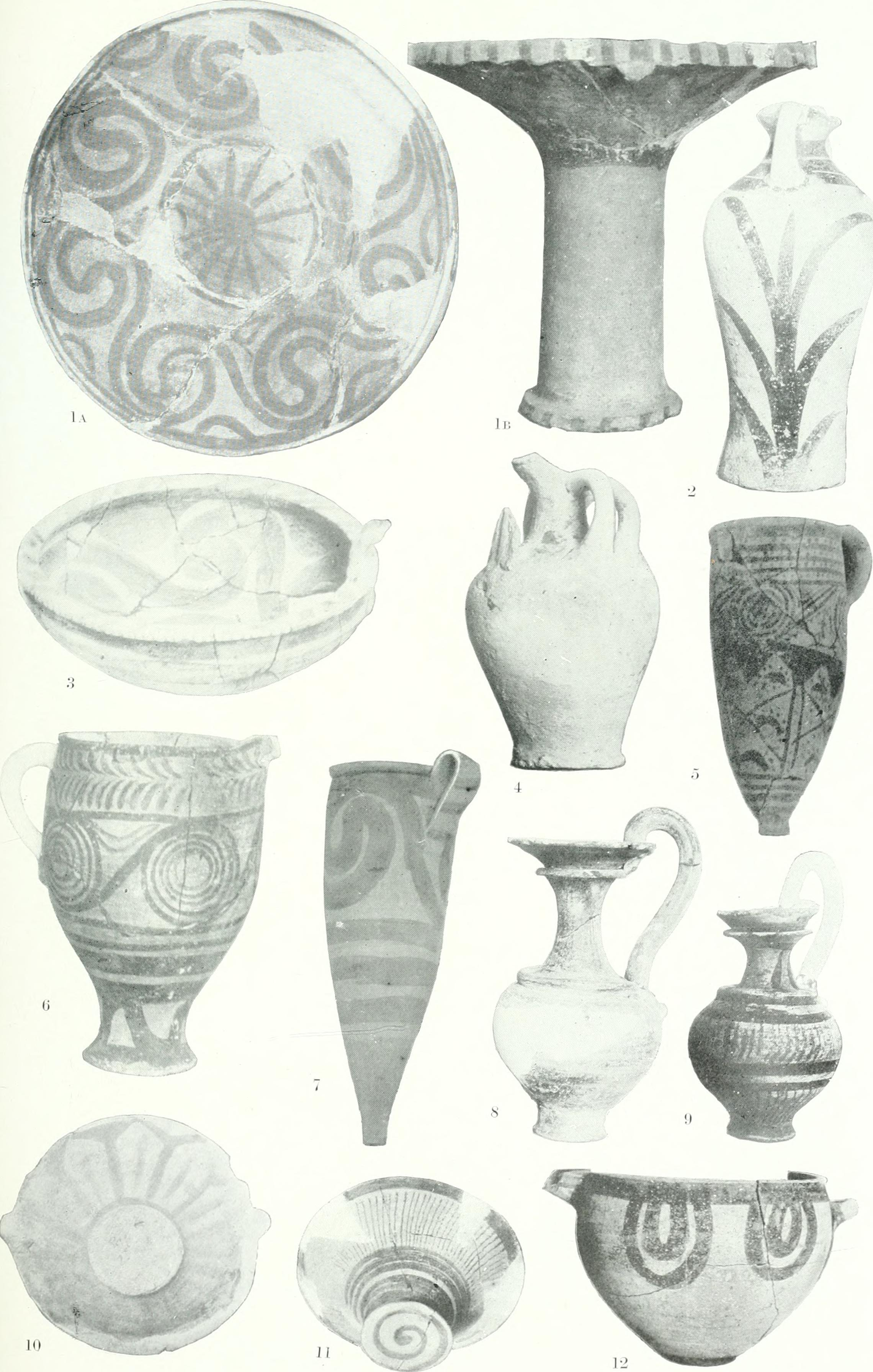 Title: Excavations at Phylakopi in Melos, Year: 1904 (1900s) Authors: British School at Athens Atkinson, Thomas Dinham, 1864-1948 Subjects: Publisher: London : Published by the Council, and sold on their behalf by Macmillan Text Appearing Before Image: 4^# 12 i •_») 2.S LATER LOCAL MYCENAEAN POTTERY (H3).Scale of fragments 4 ; 9. J- H. S. SUPPL. IV. (1904, PL. XXVII. Text Appearing After Image: LATER LOCAL MYCENAEAN POTTERY (S 13). J. H. S. SUPPL IV (19041 PL. XXVIII.